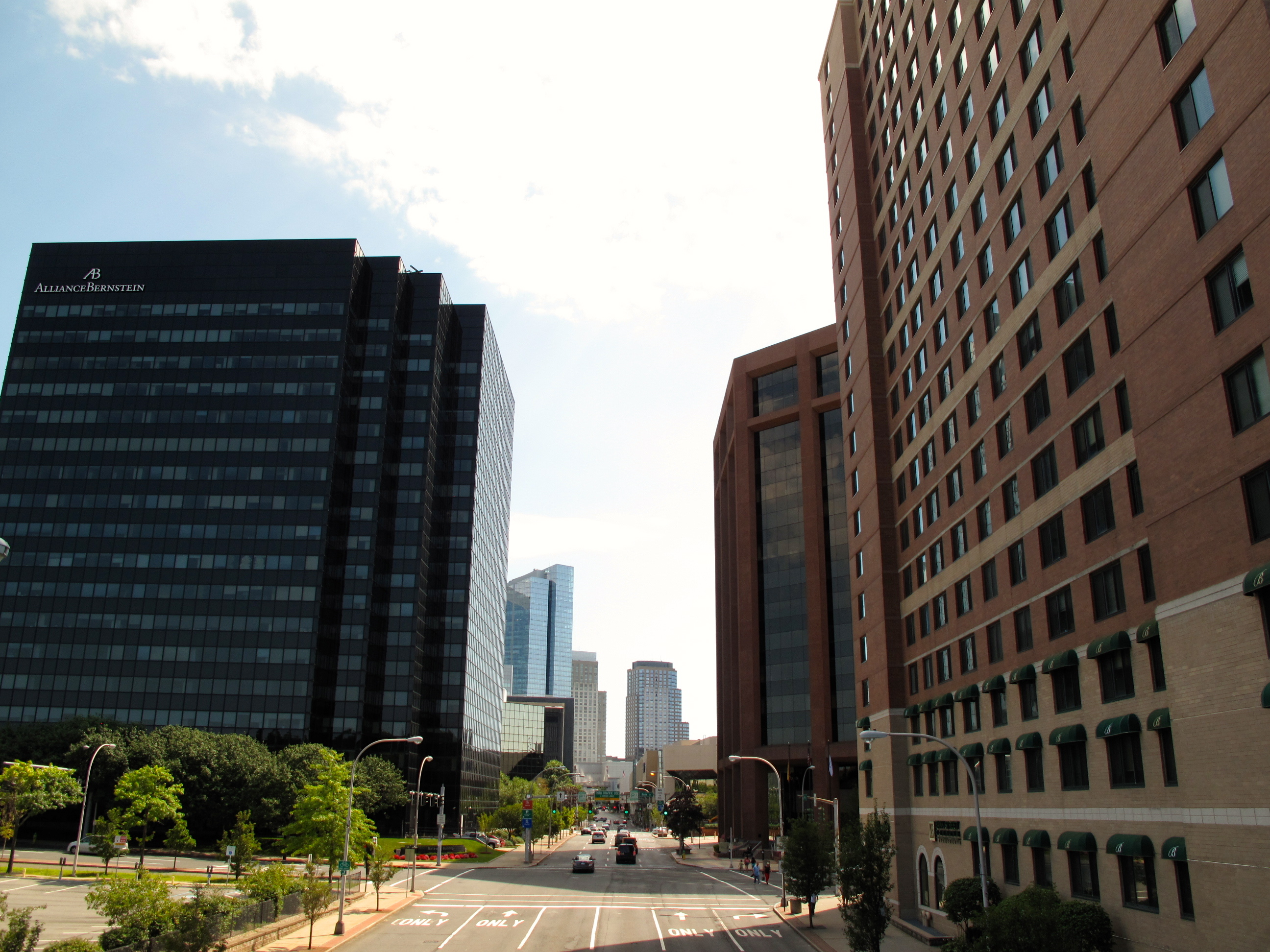 Main Street in the City of White Plains. Taken in August 2013.